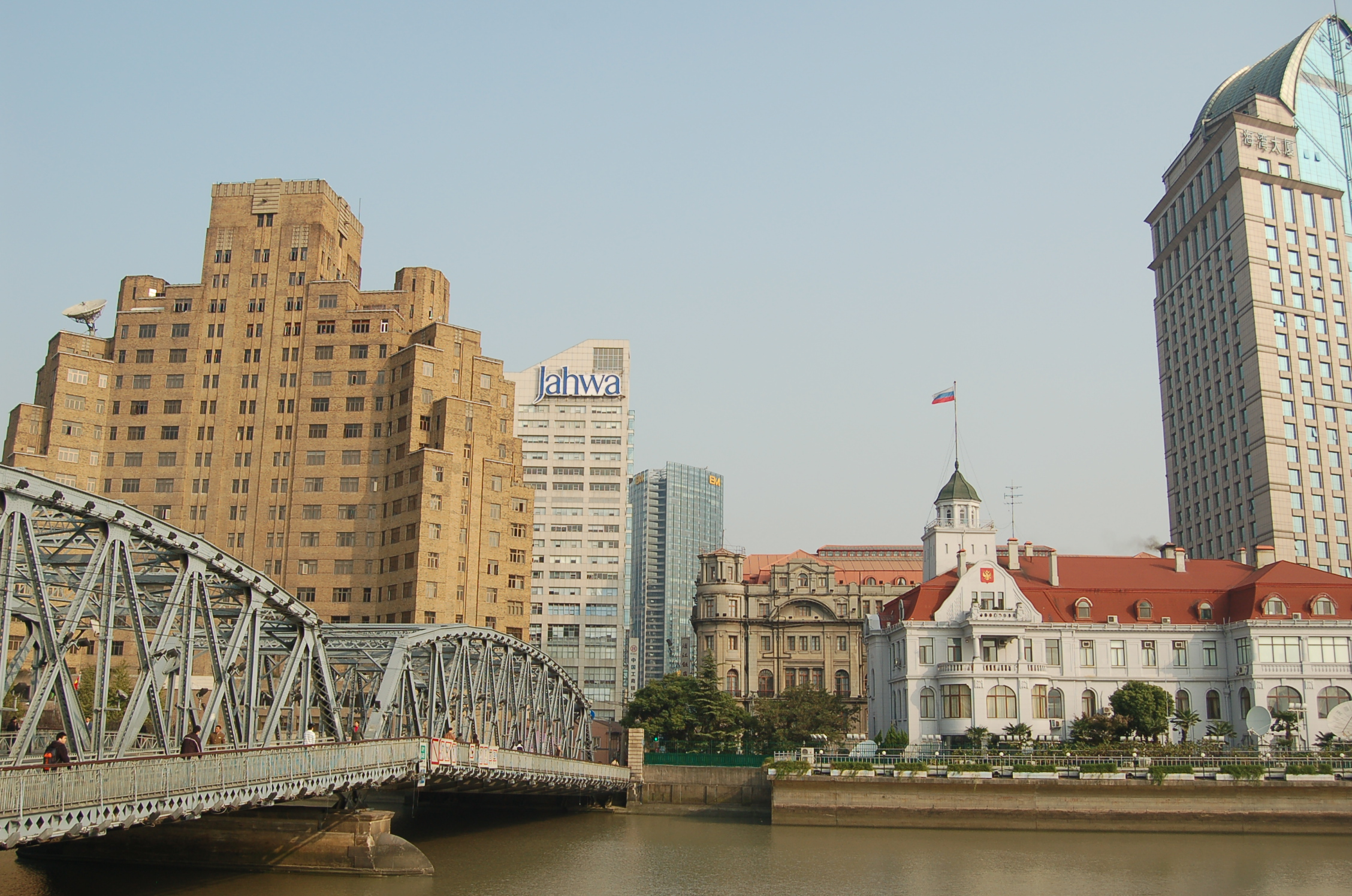 Photograph of Garden Bridge (also known as Wai Bai Du Bridge) at the intersection of Huang Pu Jiang River and Su Zhou He River, Shanghai, CHINA. Russian consulate to the right. Taken by Maocheng Hu at 11/13/2007 and released into the public domain.